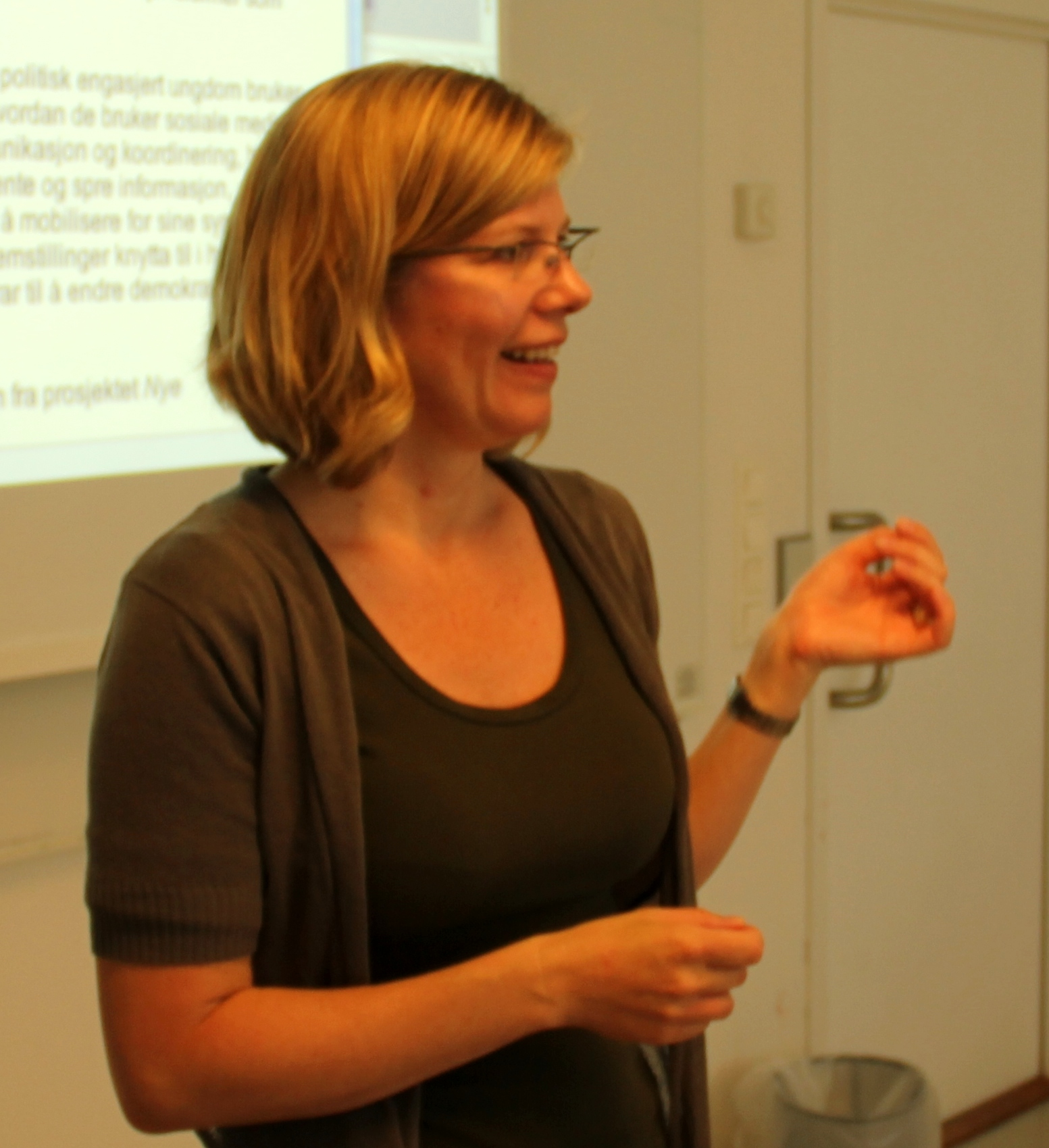 Tanja Storsul, Norwegian Amanuensis at the University of Oslo. Expert om Media studies.